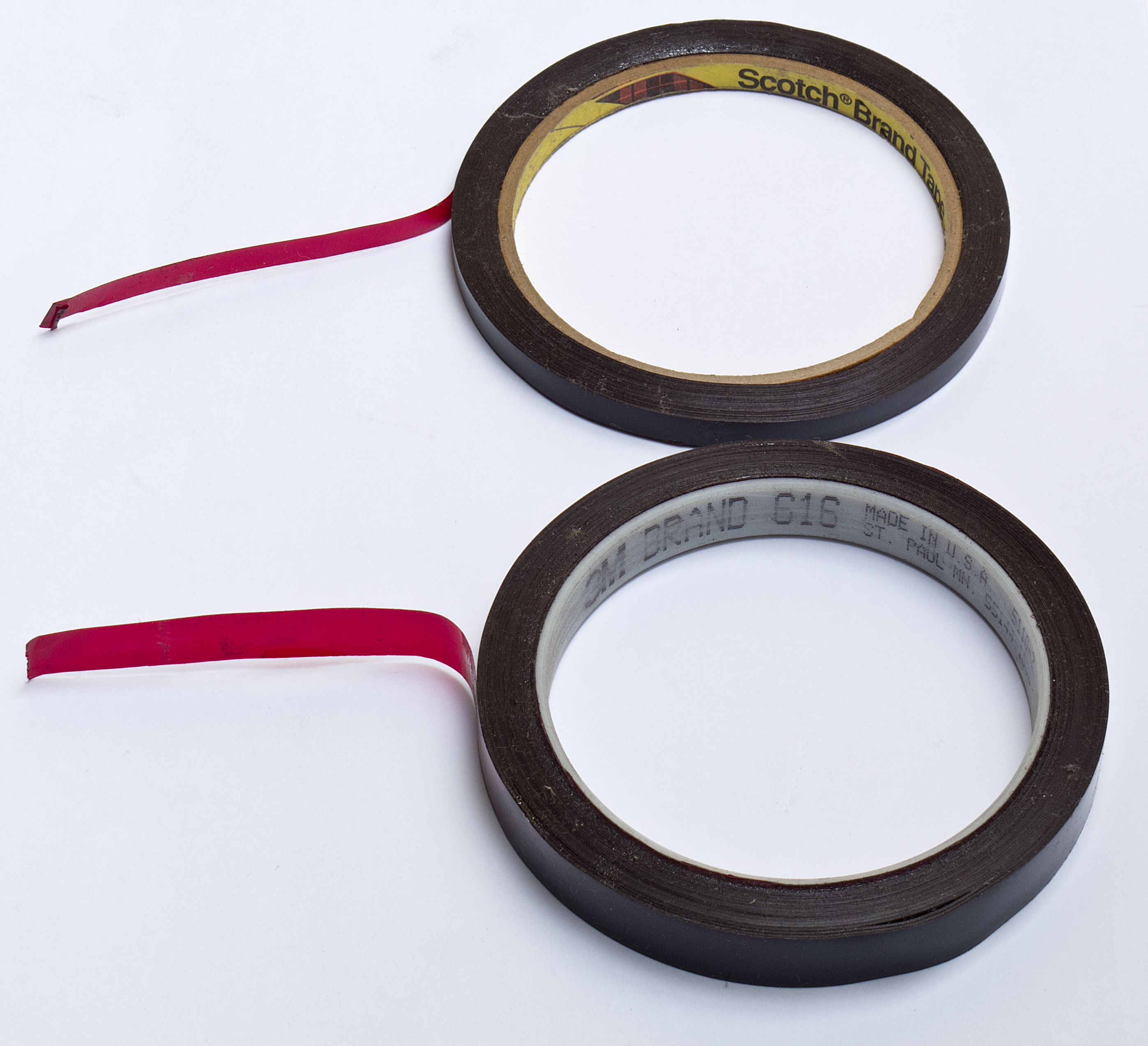 Two rolls, of different widths, of rubylith. The one in the back is 1/4 inch, the one in the front, 1/2 inch